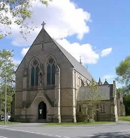 St Chrysostom's parish church, Anson Road, Victoria Park, Manchester, seen from the northwest